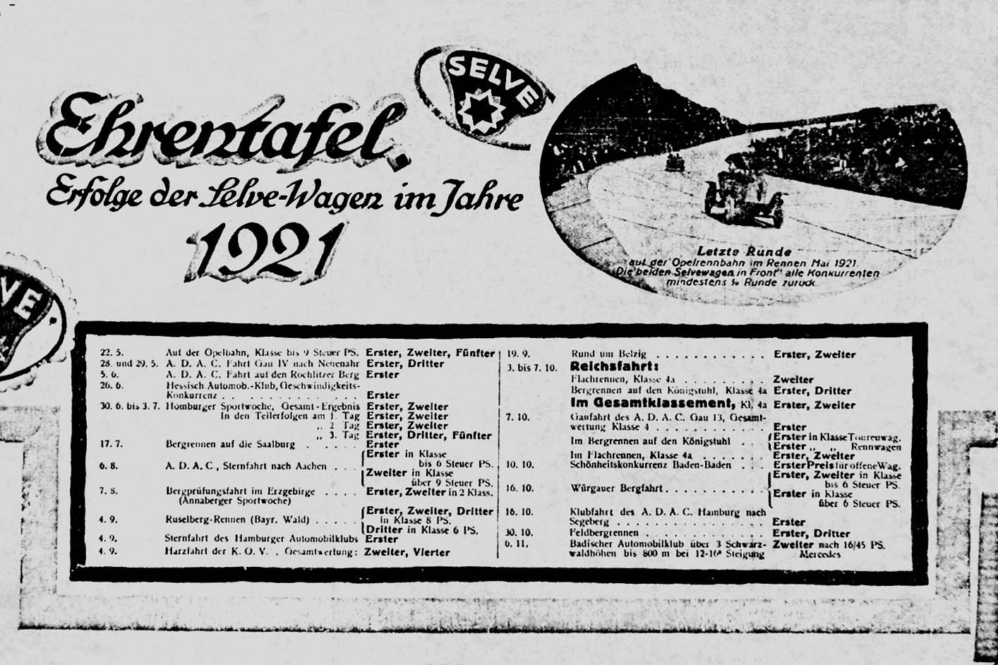 Advertising "Selve Automobilwerke AG"